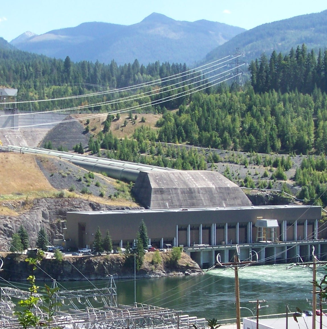 Kootenay River between Nelson, BC and Castlegar, BC, Canada South Slocan Dam buildings are at the bottom of the frame